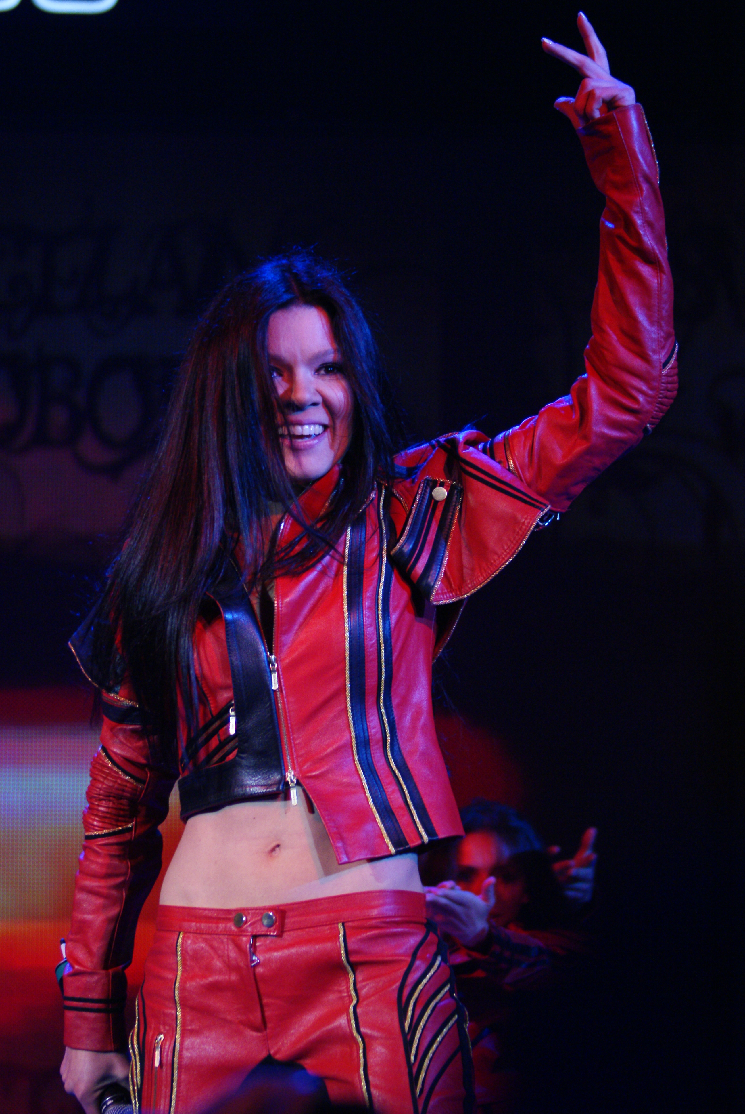 Ruslana during the Eurovision Song Contest 2009.